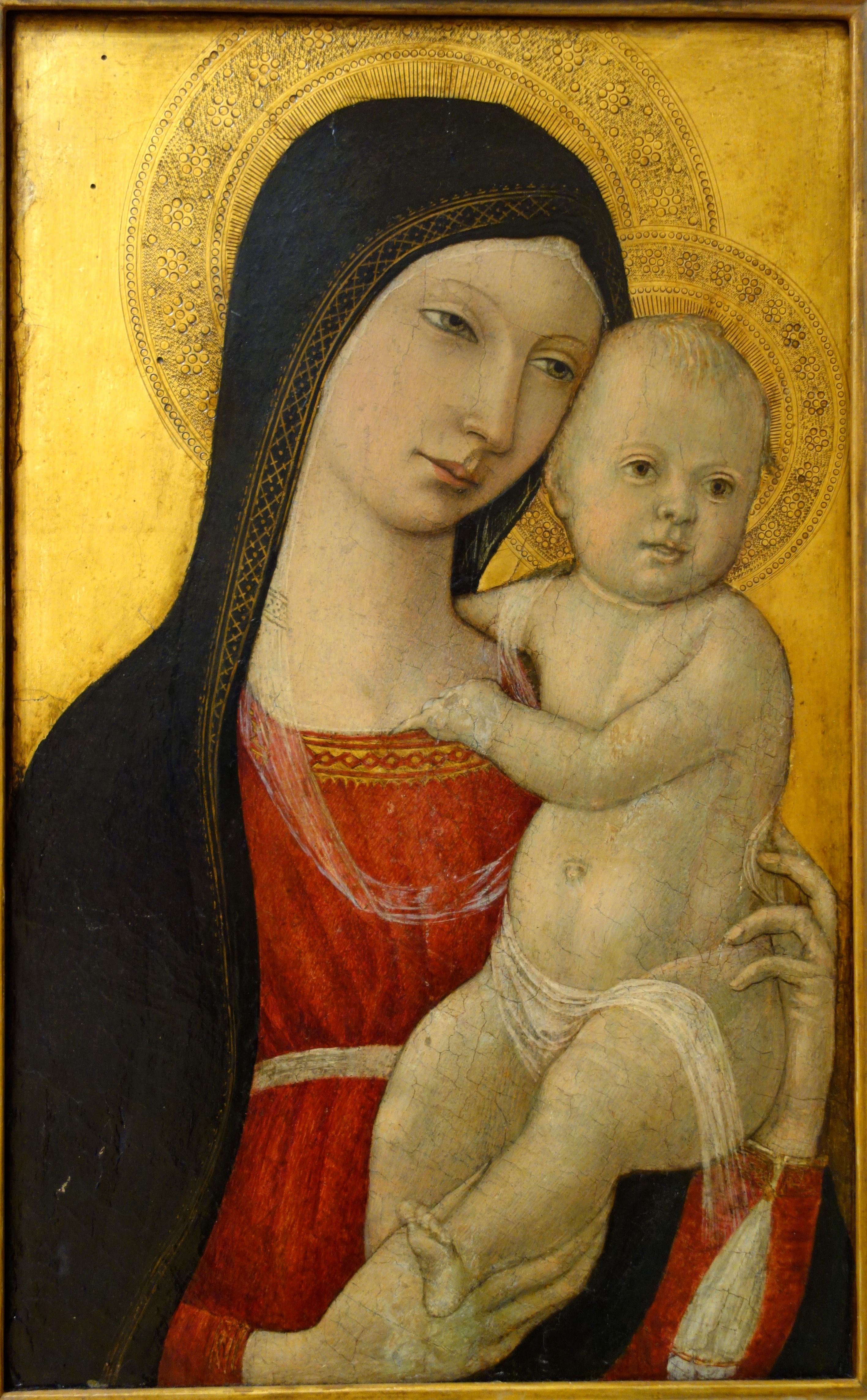 Exhibit in the Chazen Museum of Art, University of Wisconsin-Madison, Madison, Wisconsin, USA. This artwork is old enough so that it is in the public domain.